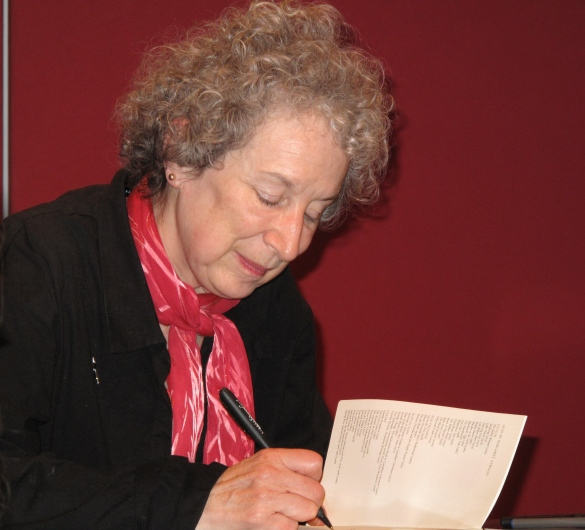 Margaret Atwood - Munich 19.10.2009